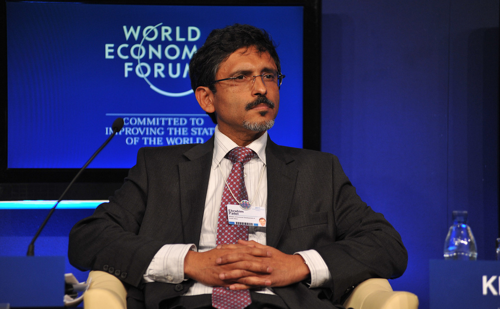 CAPE TOWN\SOUTH AFRICA, 05MAY11 - Ebrahim Patel, Minister of Economic Development of South Africa, during the Job Creation session at the World Economic Forum on Africa 2011 held in Cape Town, South Africa, 4-6 May 2011.